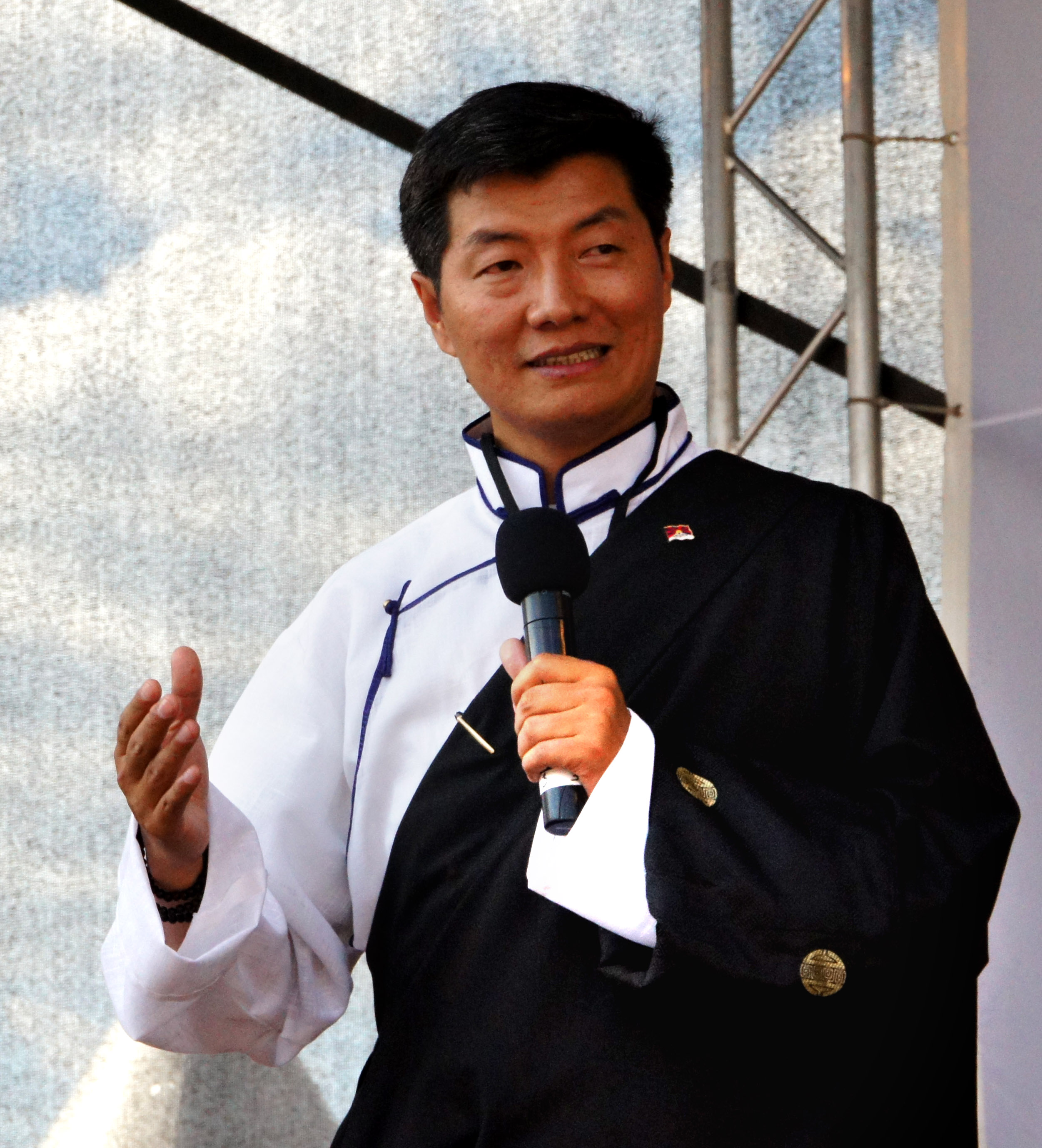 Lobsang Sangay 洛桑·桑盖 in Heldenplatz, Vienna, Austria, on occasion of "European Solidarity Rally for Tibet". This person is, as of 2012, and since 2011, the democratically elected prime minister of Tibet's government in exile.